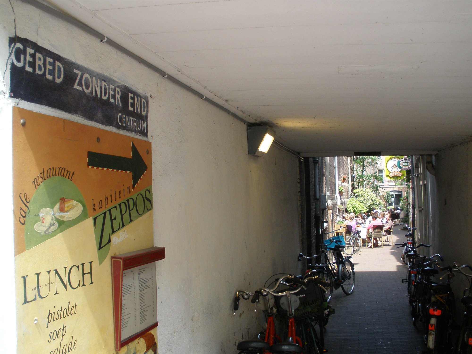 Gebed zonder End, a small alley in Amsterdam, the Netherlands. The poetic name ("Endless Prayer") refers to the many cloisters that once dominated this area.